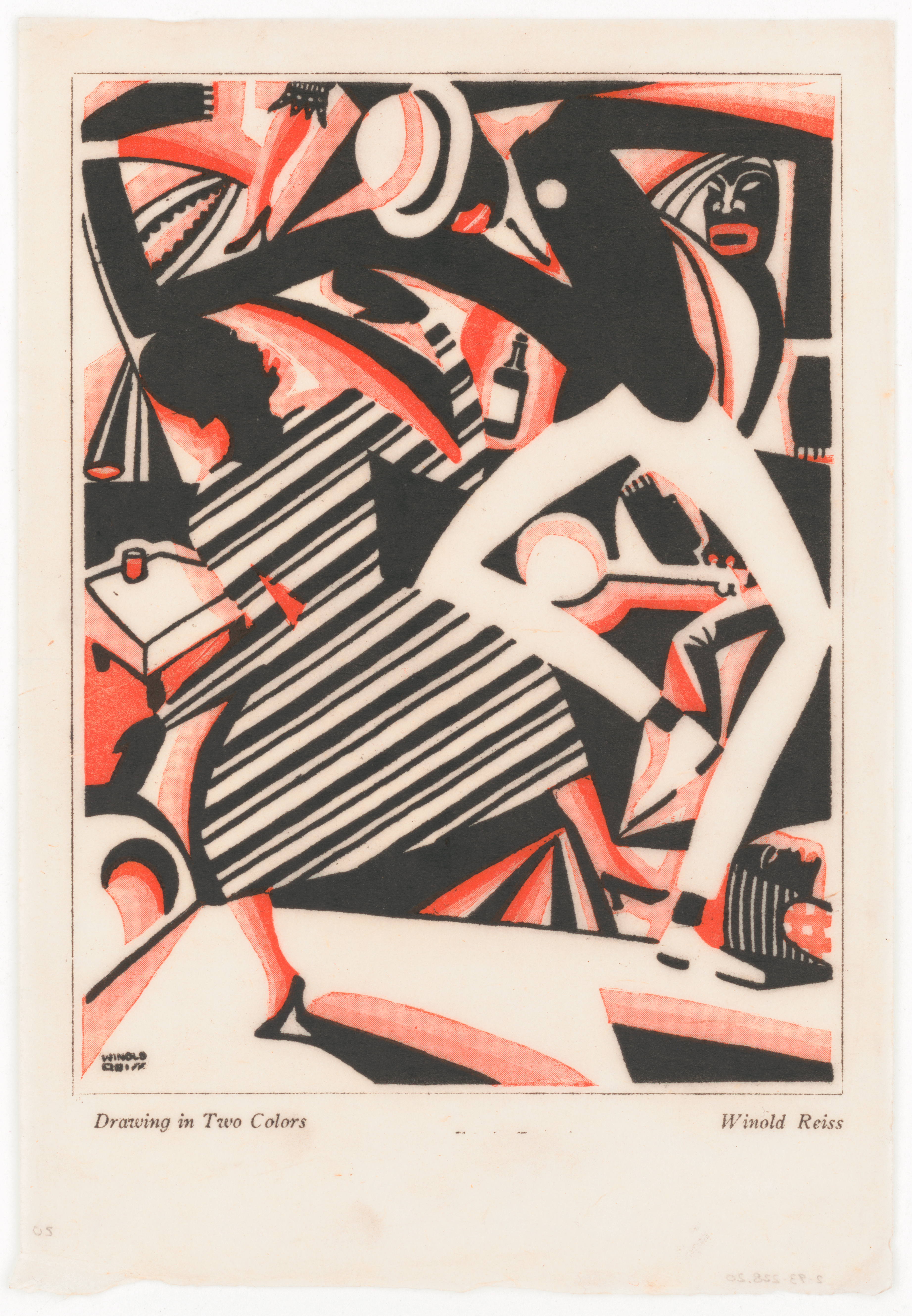 "Drawing in two colors" by German painter Winold Reiss (1886-1953). Also published under title "Interpretation of Harlem Jazz I". 1 print on Japanese paper: offset lithograph and halftone, in two colors.